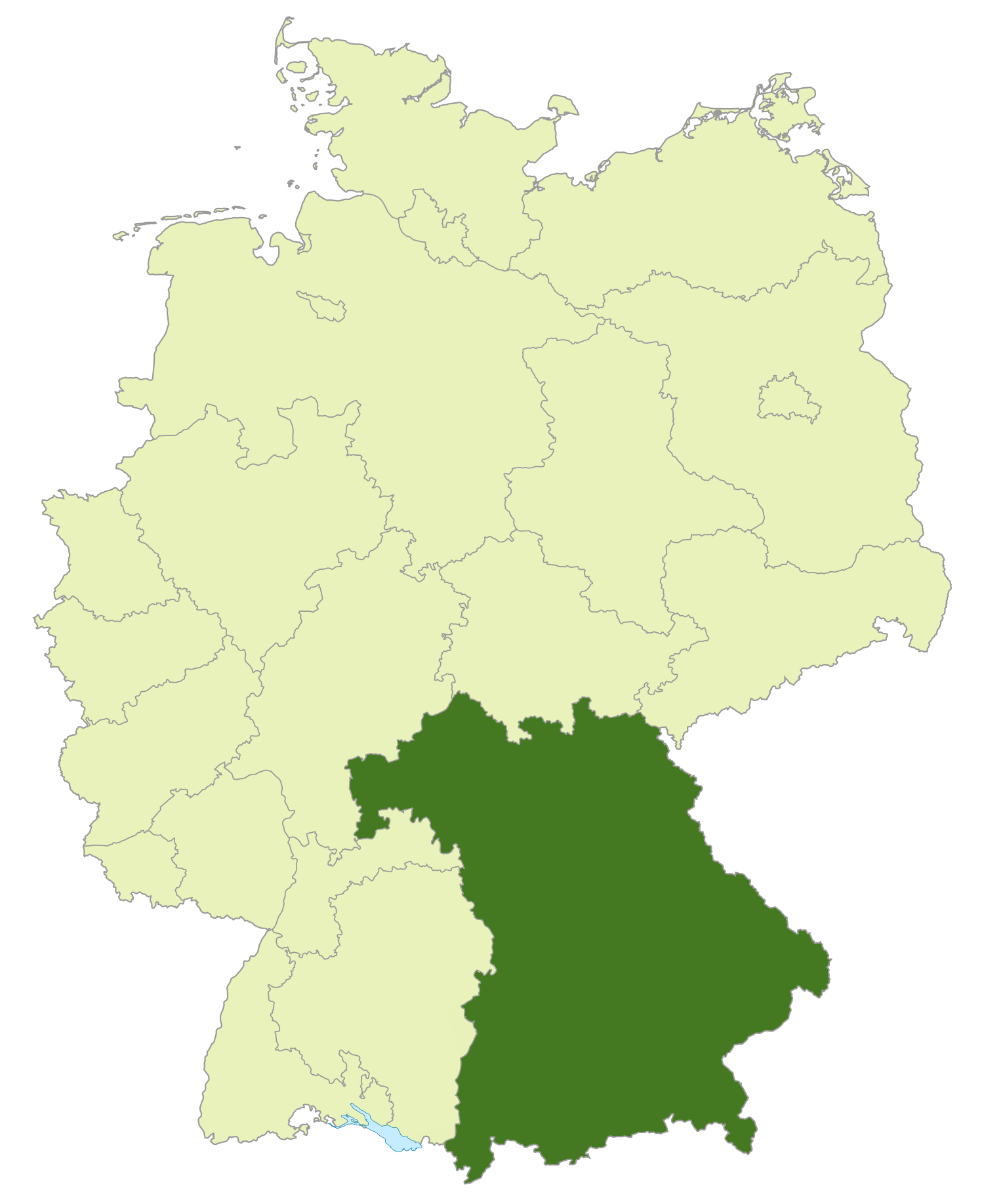 Map of regional soccer association Bayern, Germany